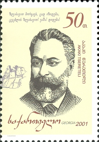 Stamps of Georgia, 2002